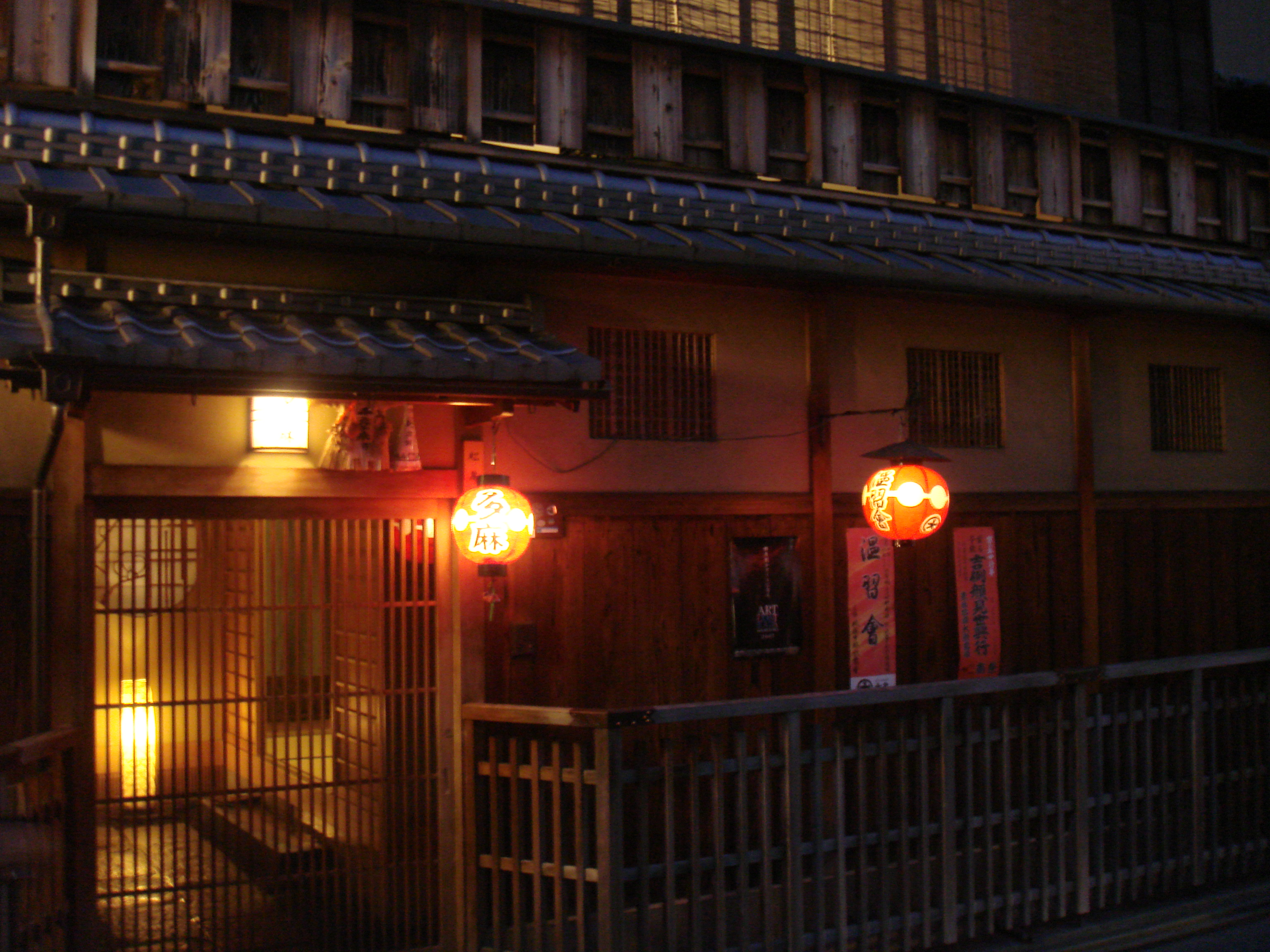 Tama okiya. Gion koubu, Kyoto